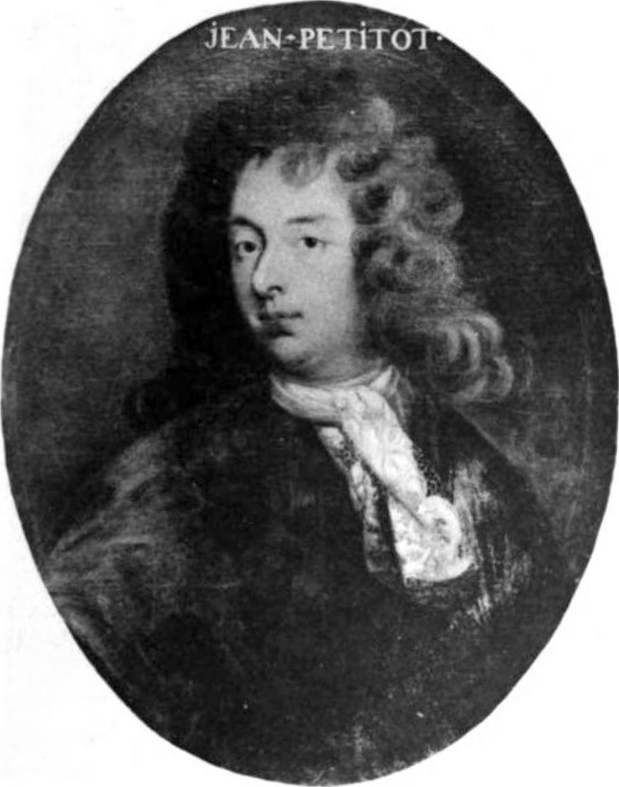 Jean-Louis Petitot (1653-1702), French-Swiss enamel painter.